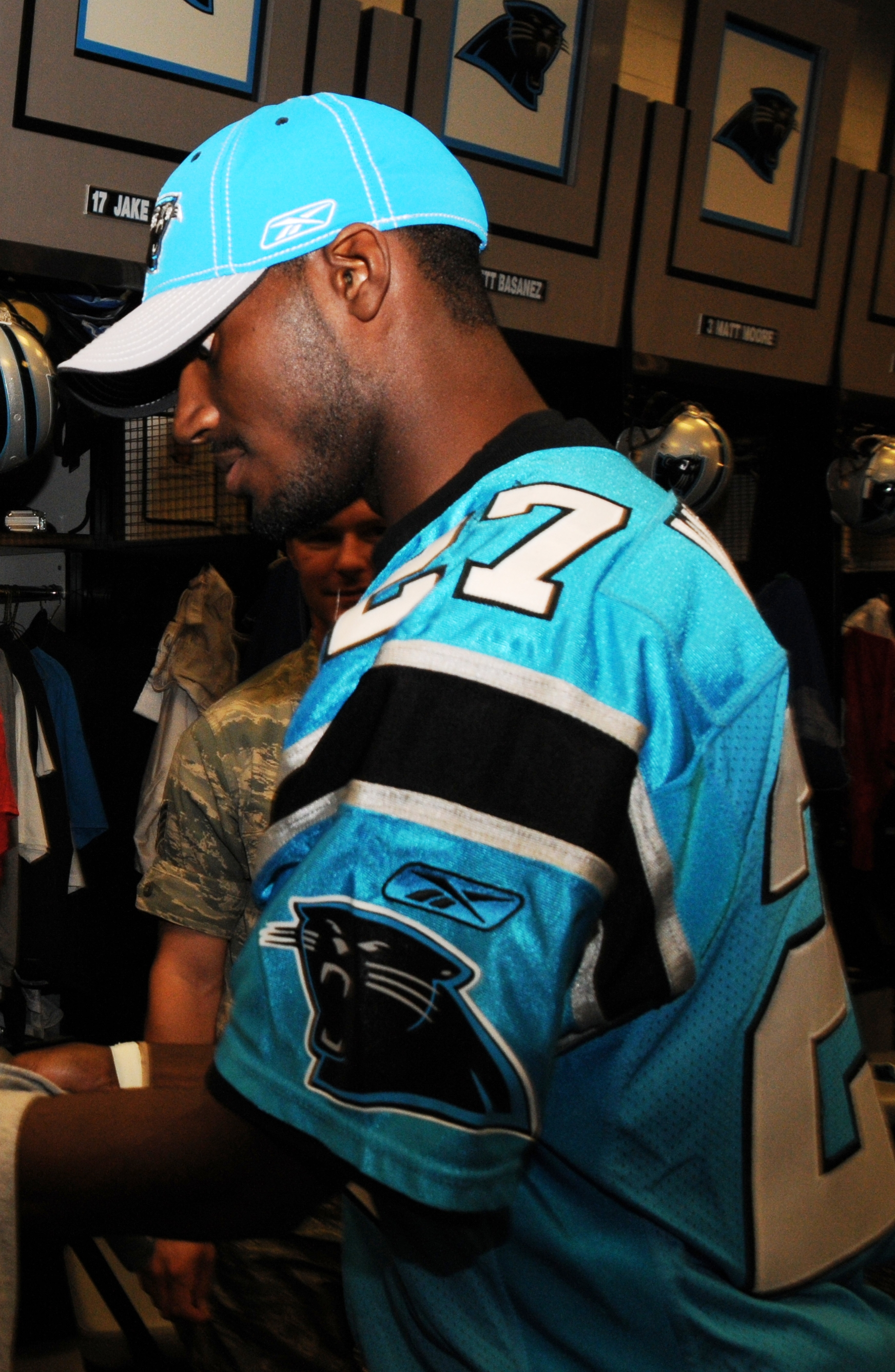 U.S. Air Force Tech. Sgt. Todd Wivell, a public affairs writer assigned to Pope Air Force Base, signs a jersey for cornerback C.J Wilson Nov 11, 2008, in the Carolina Panthers’ locker room at Bank of America Stadium in Charlotte, N.C. Wilson collected signatures of every service member who toured the stadium that day. The Panthers hosted a surprise recognition ceremony for nine service members based in North Carolina and South Carolina. VIRIN: 081111-F-7564C-422